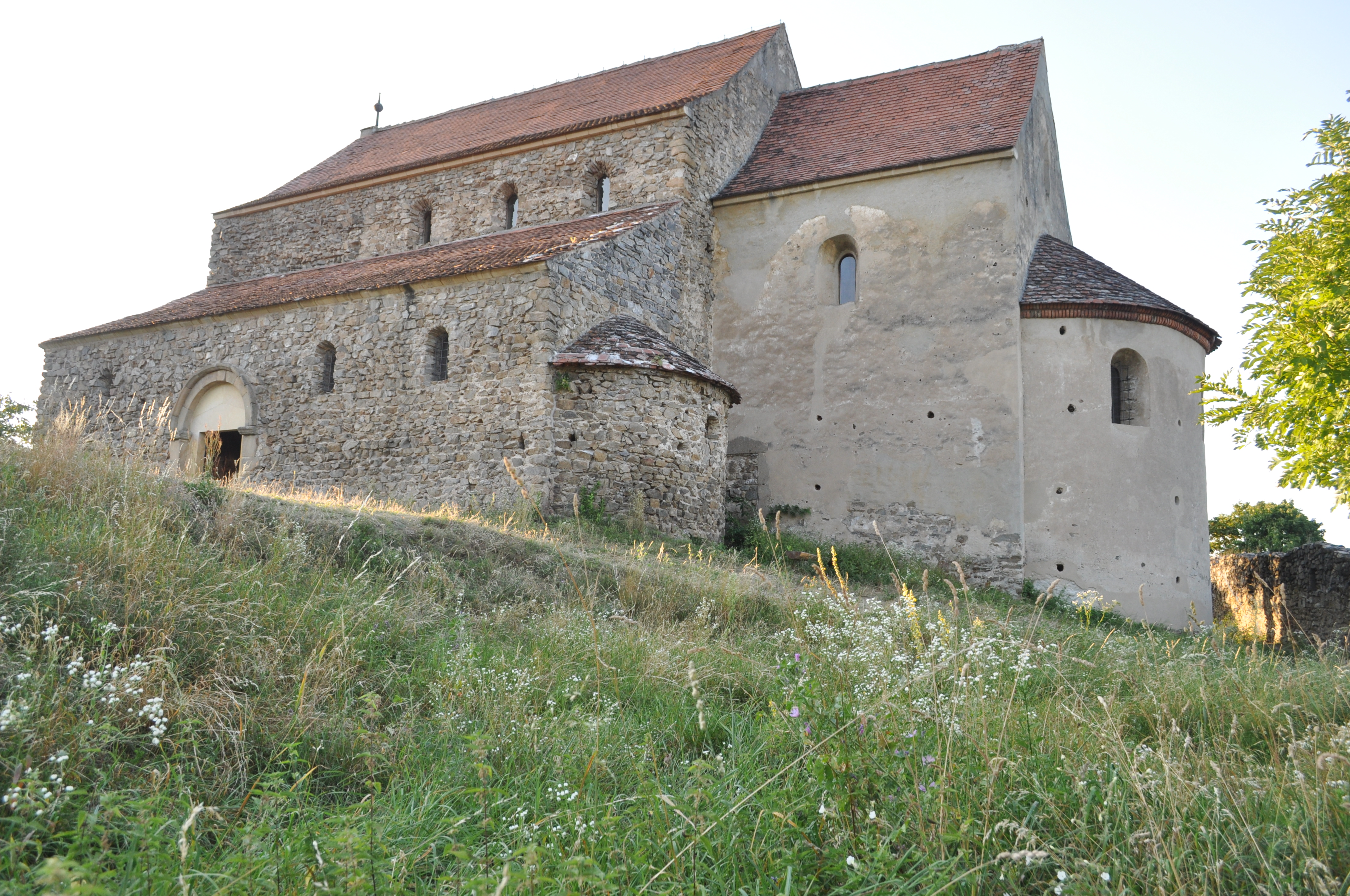 The Ensemble of The ”Saint Michael” Lutheran church in CisnădioaraRomână: Ansamblul bisericii evanghelice „Sf.Mihail” din Cisnădioara